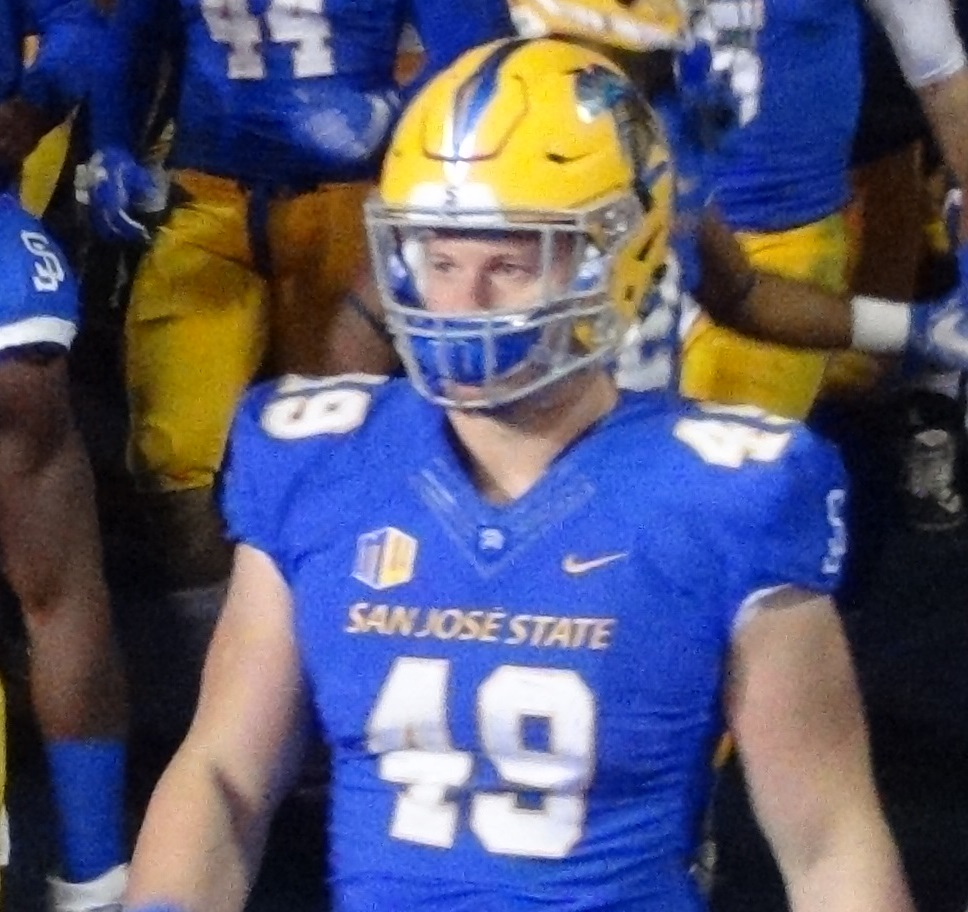 San Jose State fullback Shane Smith before his final collegiate home game on November 19, 2016.